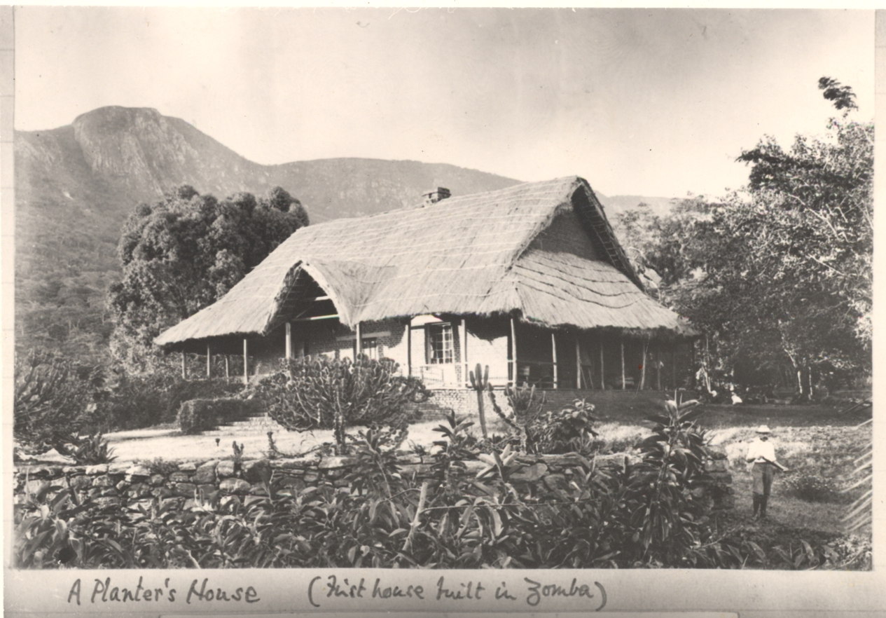 A planters house, first house built in Zomba